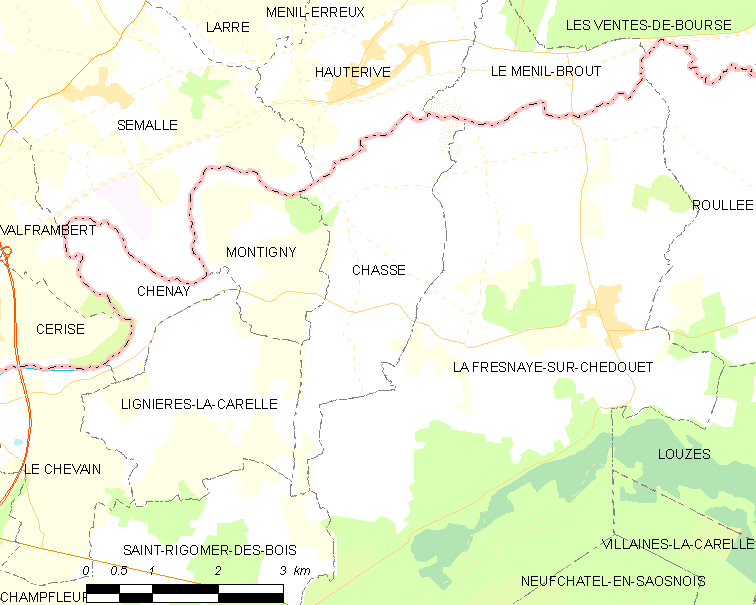 Map of French municipality